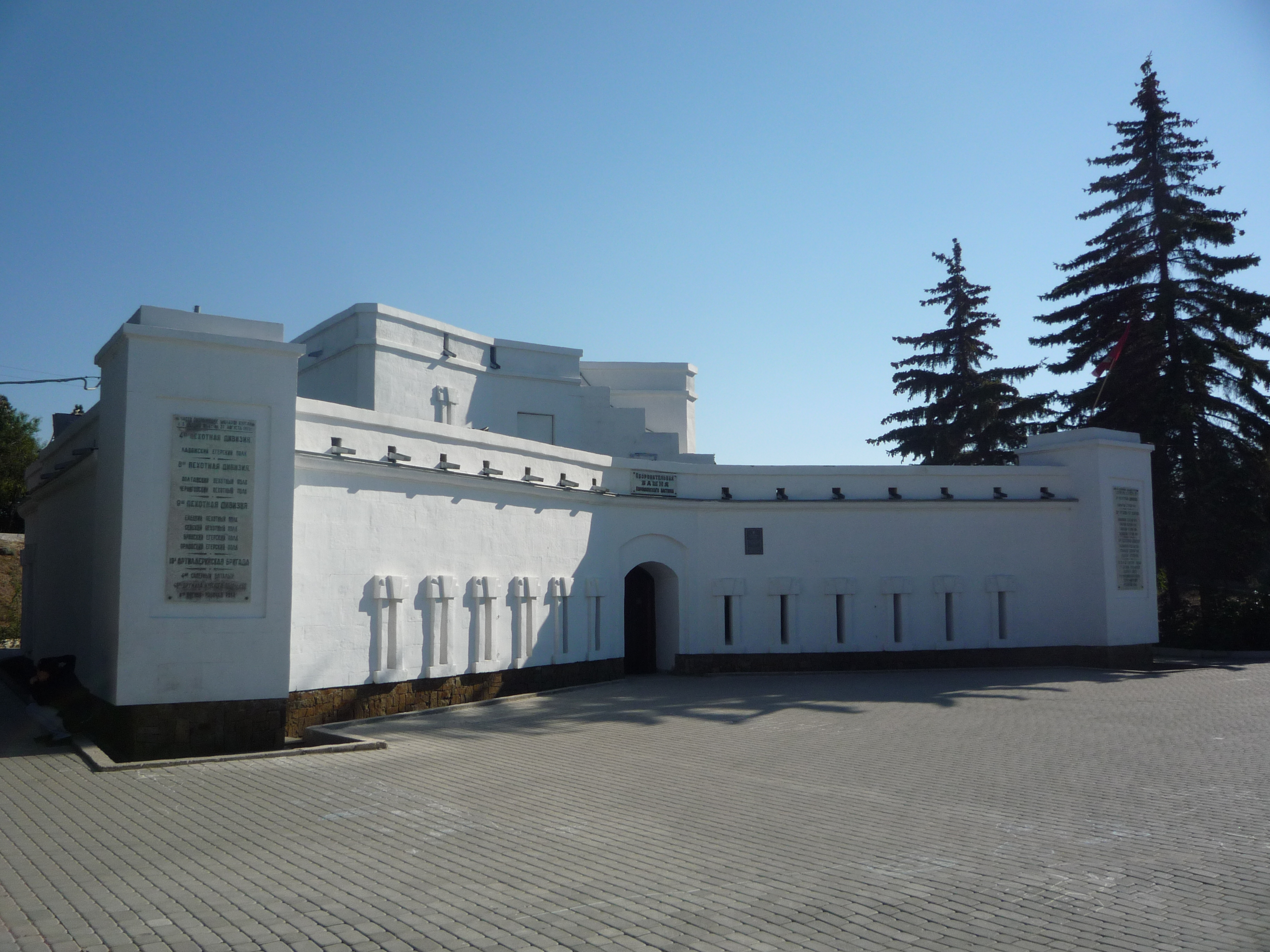 The Kornilov Bastion